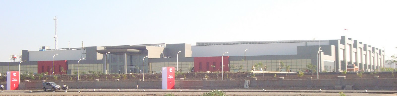 Cummins India Ltd. manufacturing plant (MIDC Surawadi) in Phaltan, Maharashtra, India.